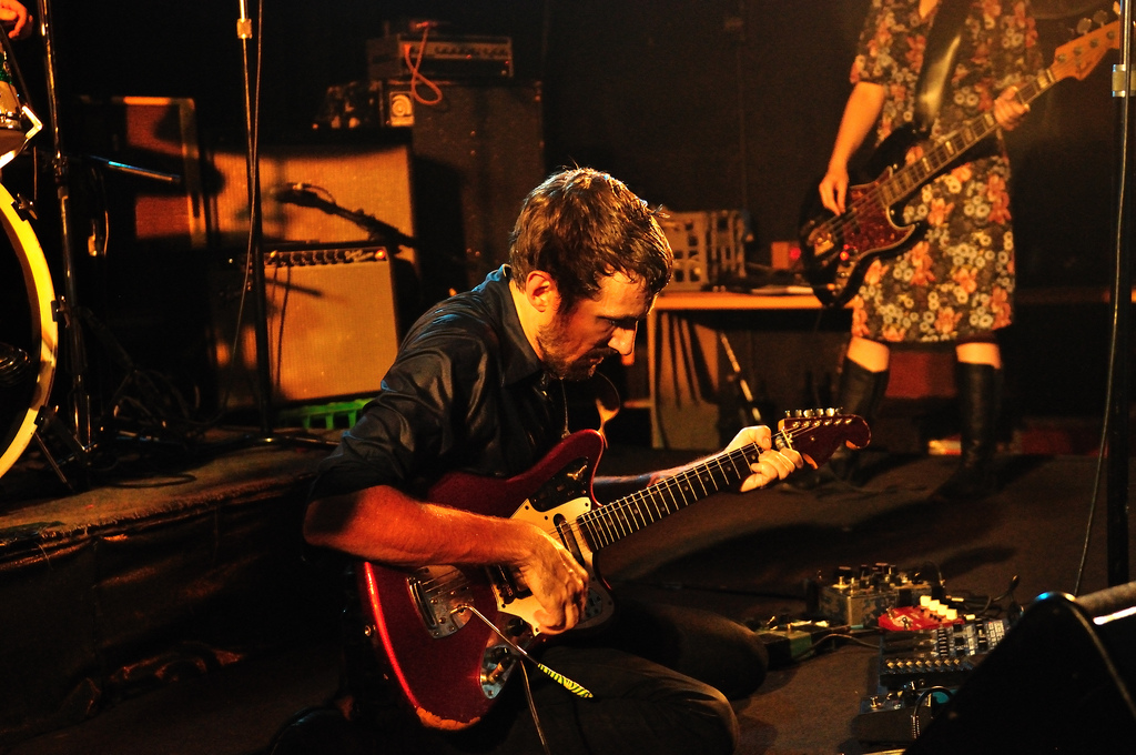 Gareth Liddiard of the Drones